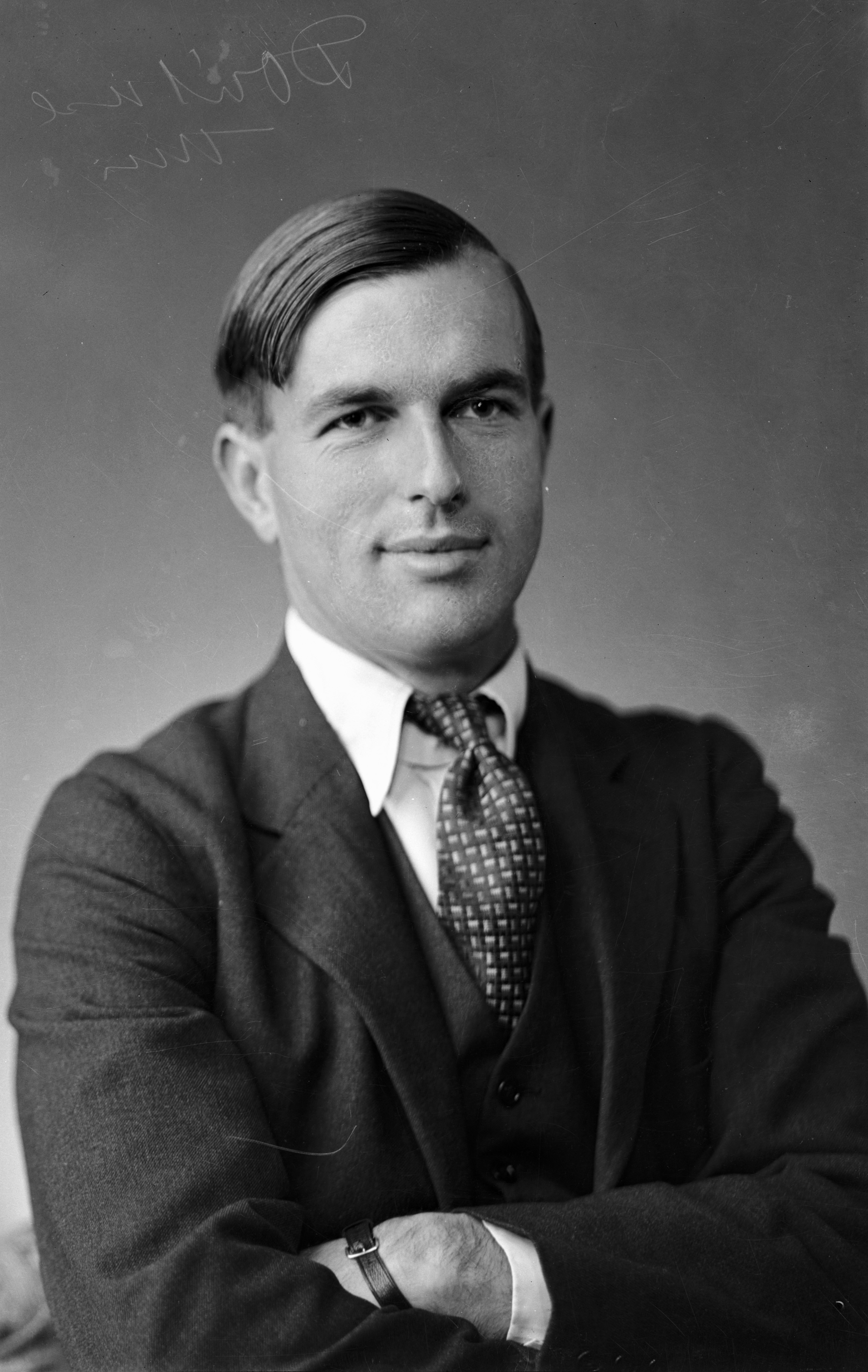 Portrait of George Hamish Ormond Wilson circa 1938. Photograph taken by S P Andrew Ltd.